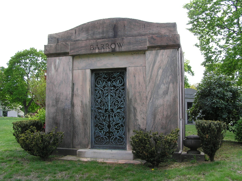 I took this photograph of Ed Barrow's mausoleum in Kensico Cemetery on May 3, 2006. —GNU Free Documentation License